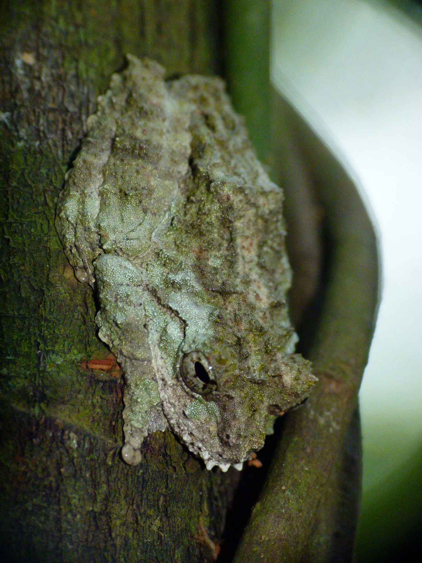 Raorchestes nerostagona in north Wayanad, Kerala